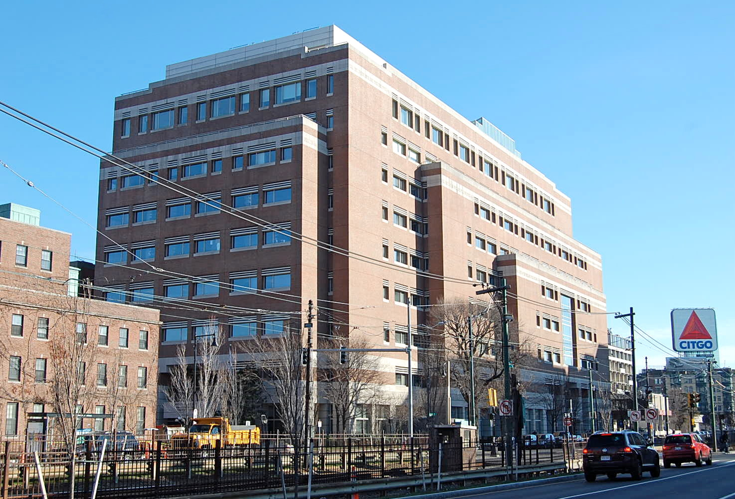 Boston University's School of Management, the Rafik B. Hariri Building, located at 595 Commonwealth Ave., Boston, MA. Electric lines for the "B" Line of the MBTA cross in front of the building. In the background is the Citgo sign in Kenmore Square.